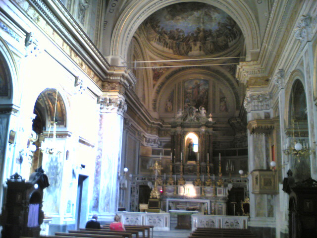 Church of Sant'Antonio a Tarsia